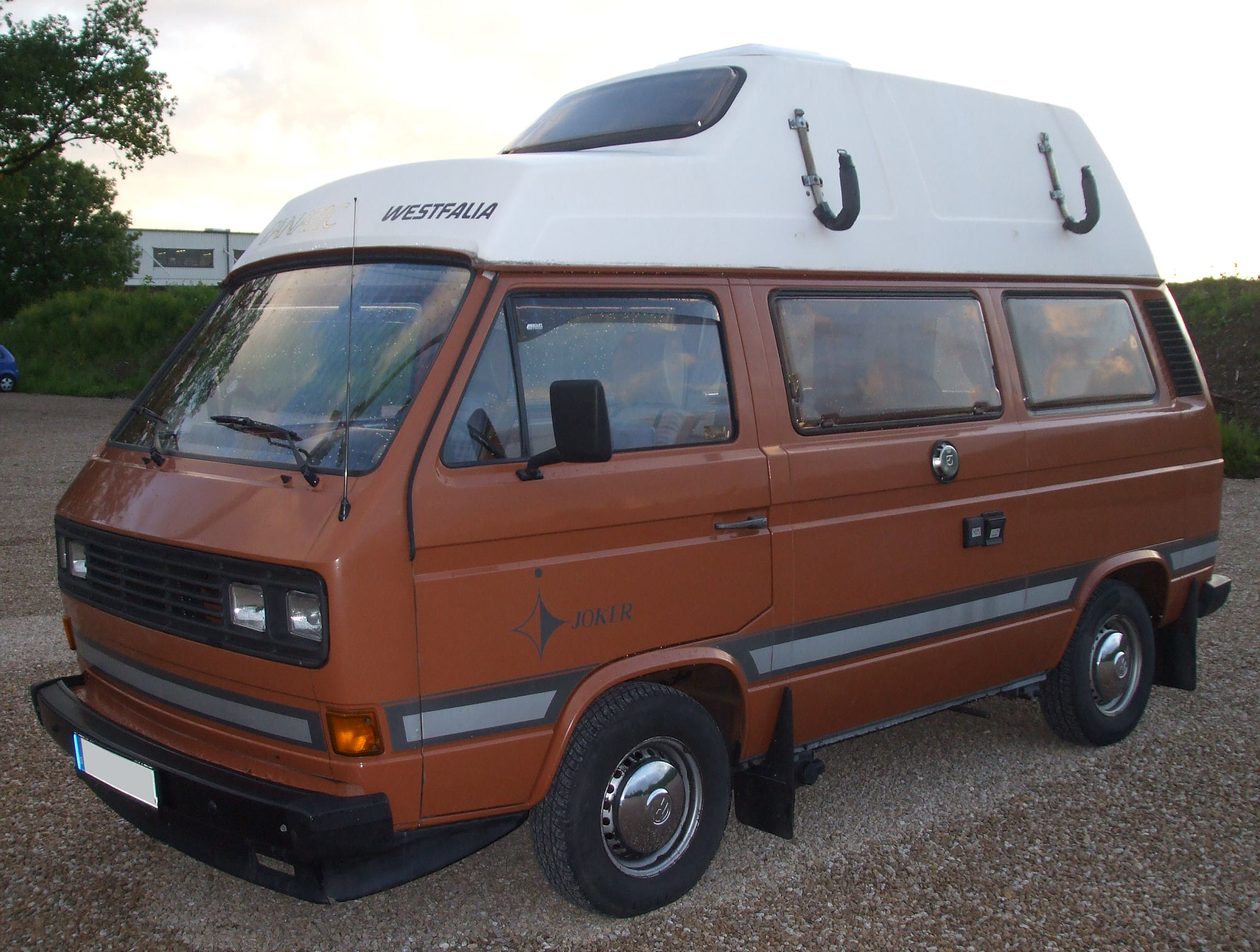 Westfalia camping vehicle «Joker».